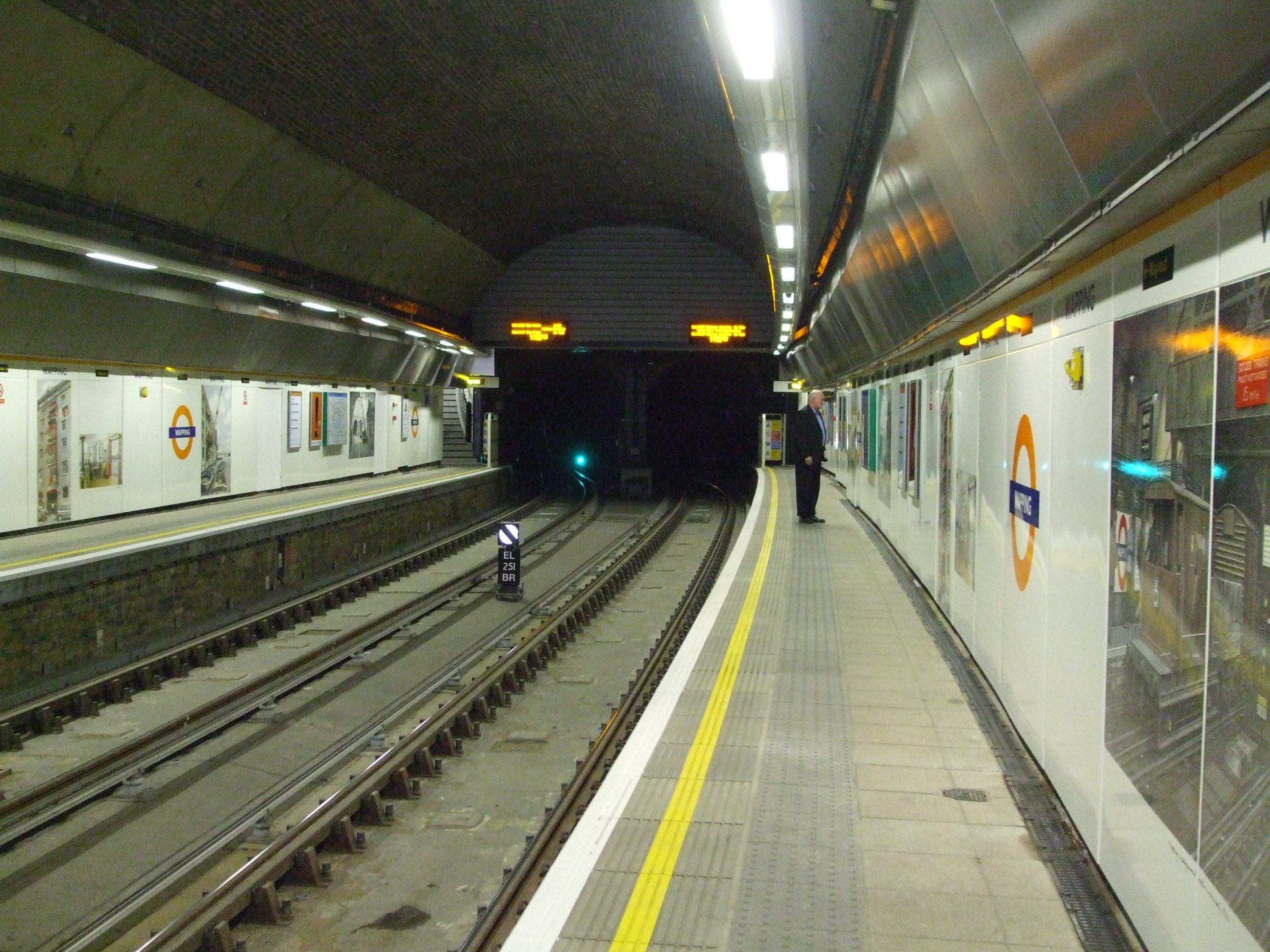 Wapping station looking south, a day after re-opening as part of London Overground, 27 April 2010. Thames Tunnel northern portal in the distance